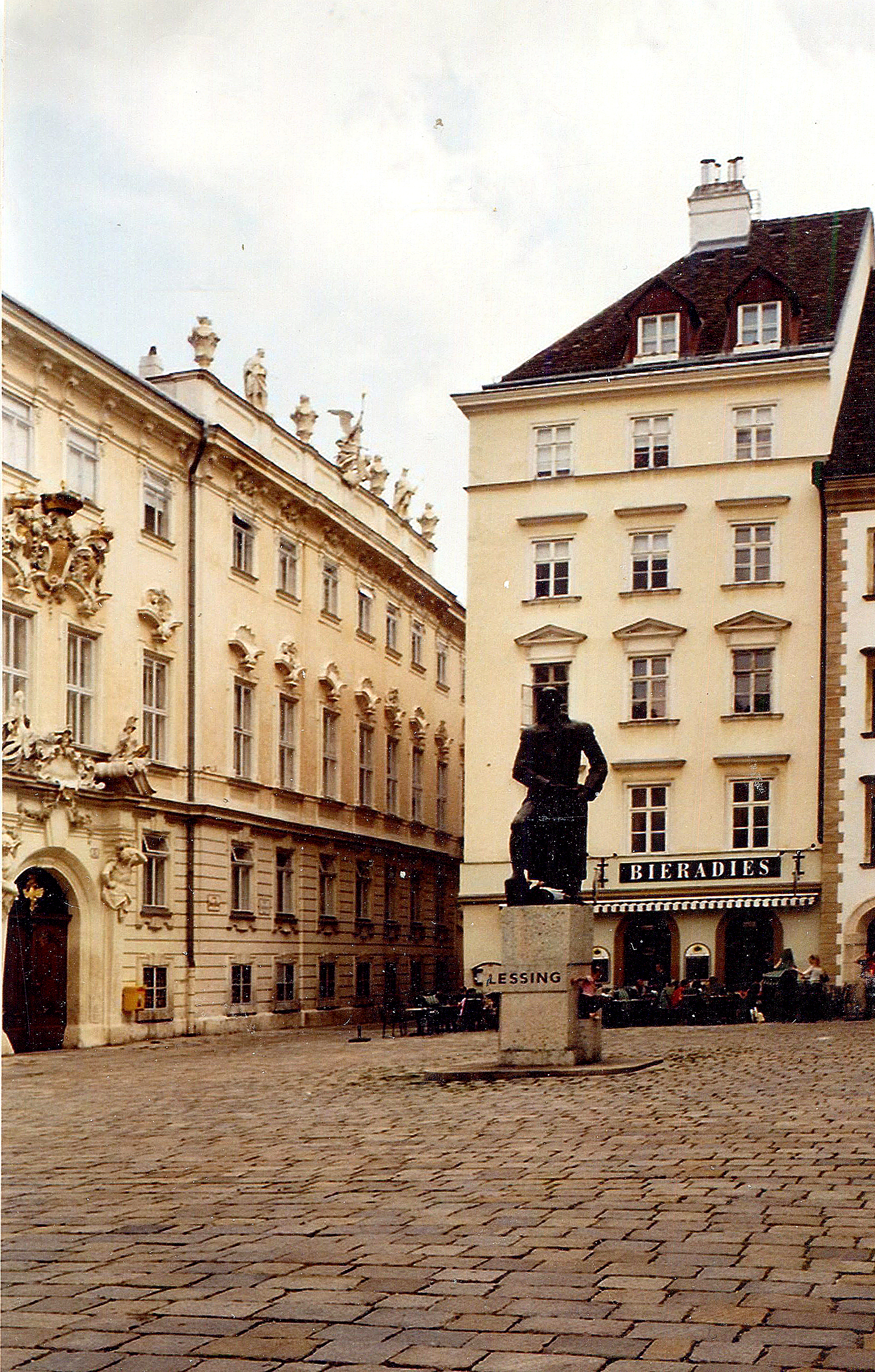 Jewish square. Here in the middle ages lived Jews, largely competing with the business people of the city. In this regard, on the basis of competition in 1420 they were expelled, and 210 people were killed. On the square there is a monument to the Jews of Vienna, as well as a monument to Lessing, melted down during the years of Nazism and again restored in 1968. Deitsch: - Jüdischer Platz. Hier lebten im Mittelalter Juden, die weitgehend mit den Geschäftsleuten der Stadt konkurrierten. In dieser Hinsicht auf dem Boden des Wettbewerbs in 1420 wurden Sie vertrieben, und dabei wurden 210 Menschen getötet. Auf dem Platz befindet sich ein Denkmal für die Juden von Wien, sowie ein Denkmal für Lessing, das in den Jahren des Nazismus umgeschmolzen und im Jahr 1968 neu restauriert wurde.